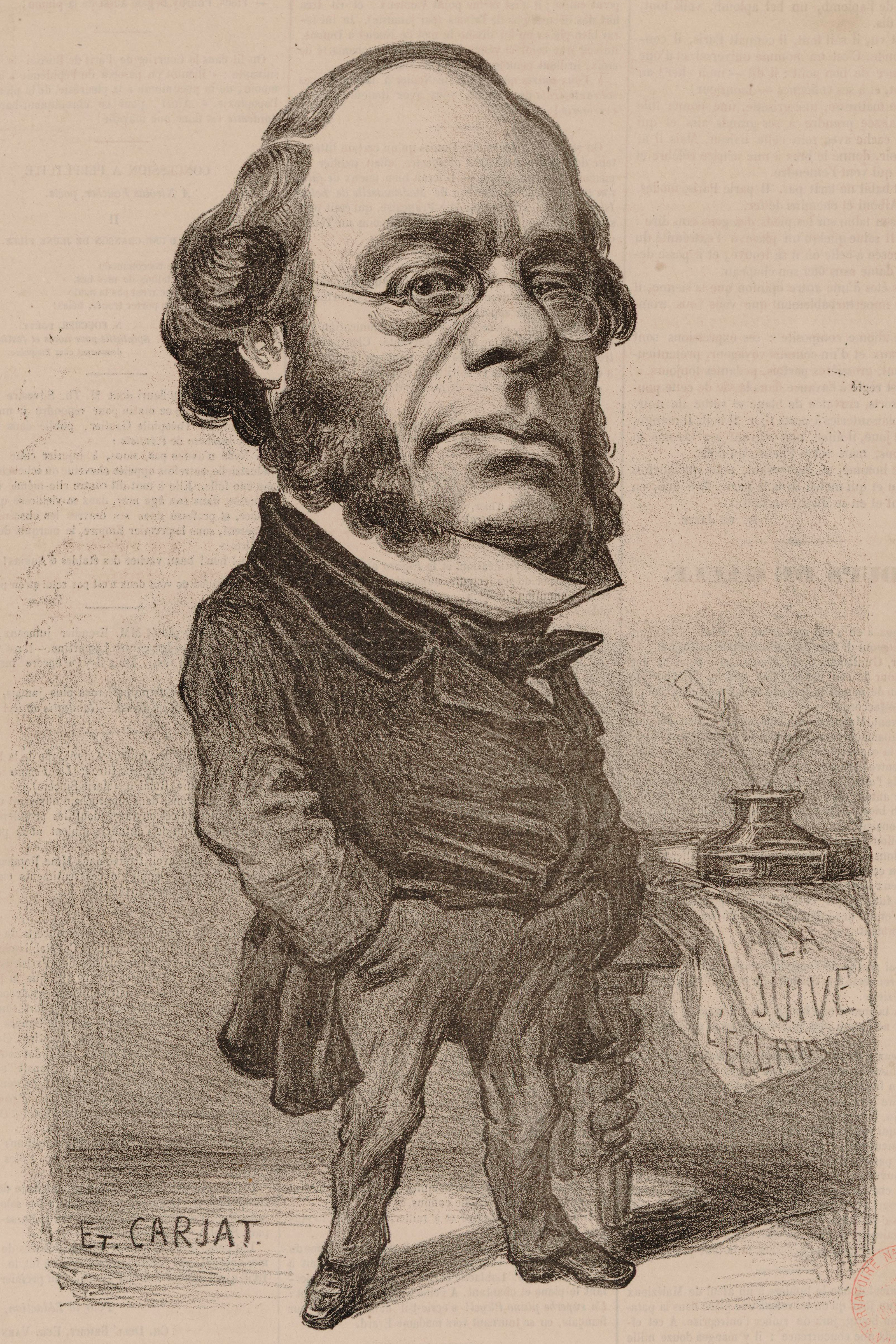 Caricature of French composer Fromental Halévy